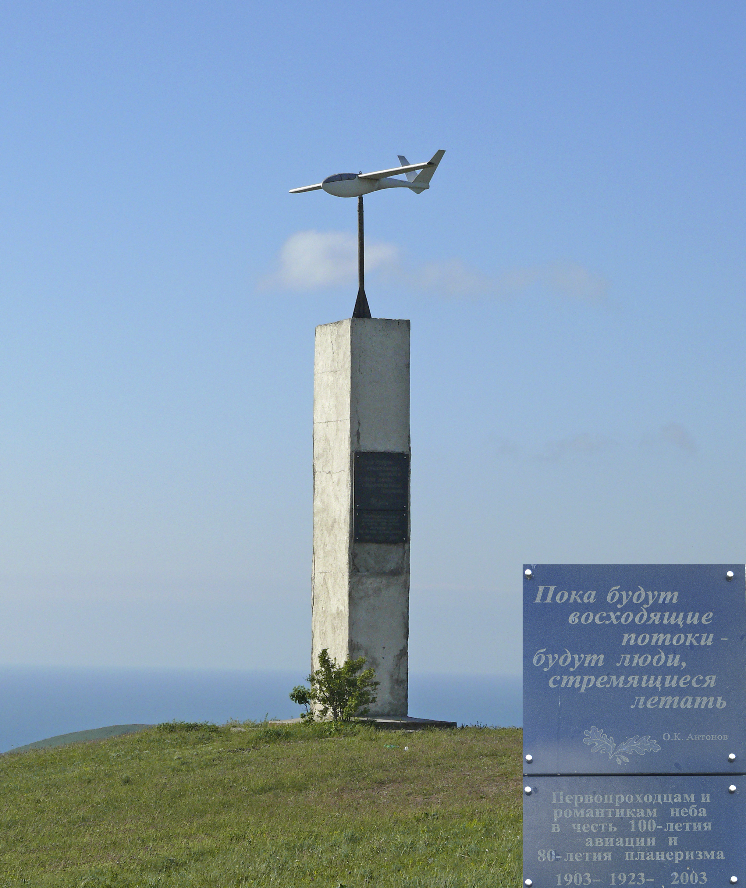 Monument on the Klementieva mount (Uzun-Syrt). Crimea, Ukraine